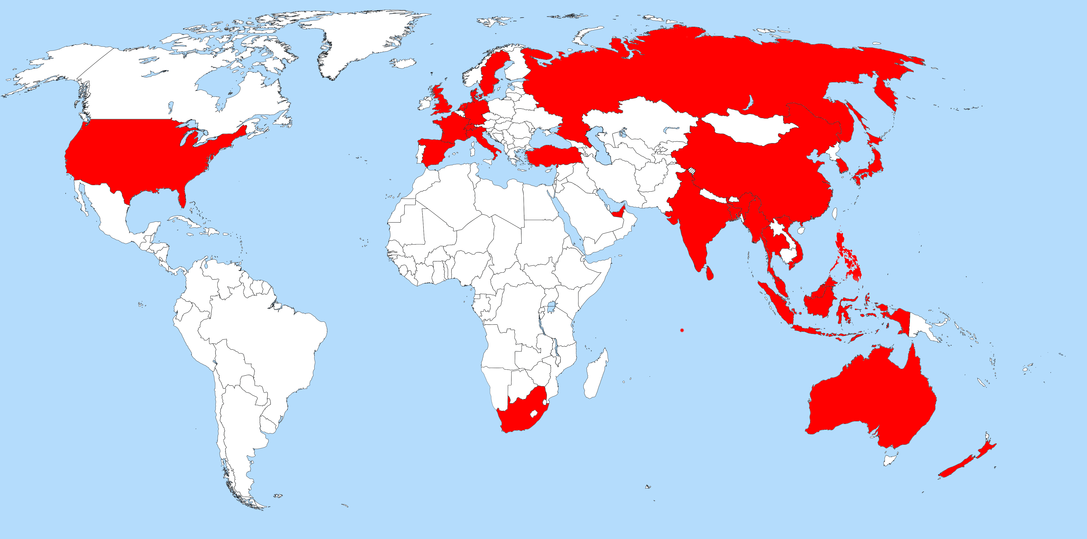 Destinations of Singapore Airlines